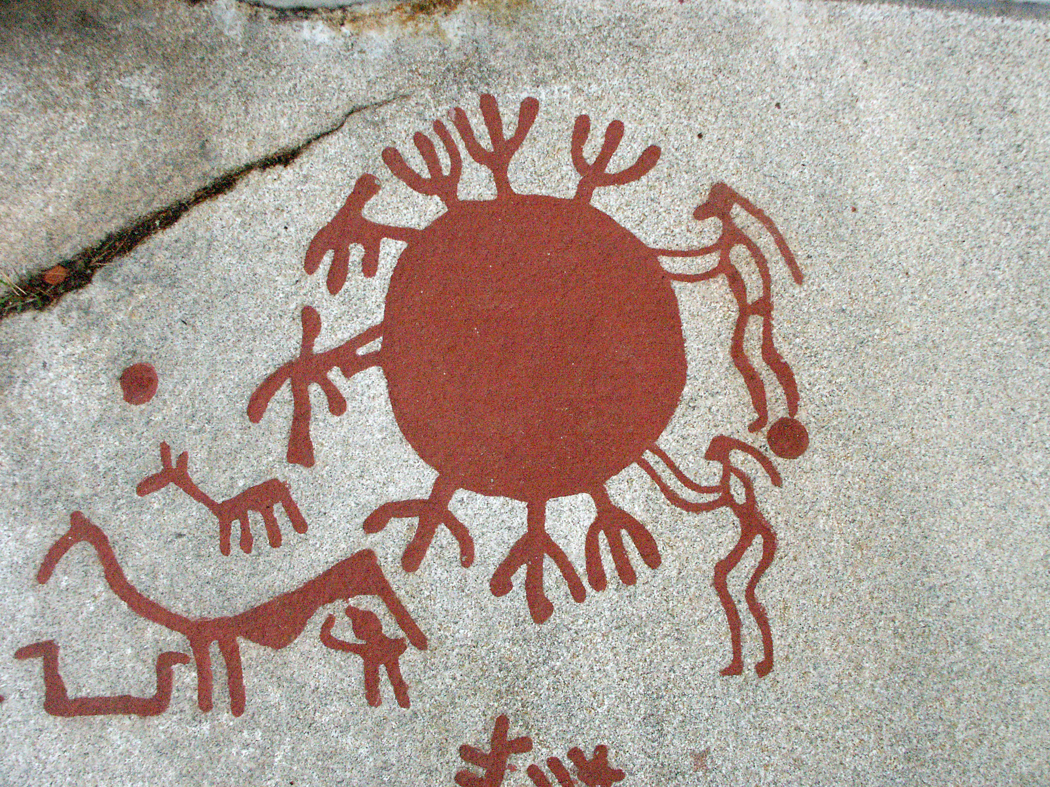 Rock carving area from the bronze age in the parish of Tanum, Bohuslän, a part of Sweden.